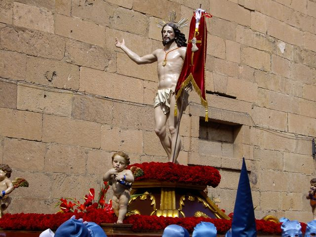 Chirst Resurrected, attributed to Alejandro Carnicero, Salamanca (Spain).